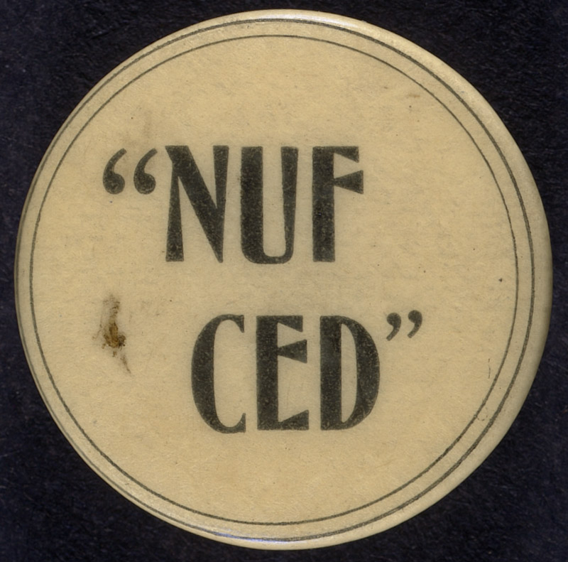 BPLDC no.: 09_03_000036 Title: Nuf Ced Button Date created: ca. 1903 General format: printed ephemera BPL Department: Print Department Description: This pin featuring Michael T. McGreevey’s nickname “Nuf Ced” was produced by McGreevey around the time of the 1903 World Series and was probably worn by the Boston Royal Rooters during games. Added to the Boston Public Library’s collection in 1923.